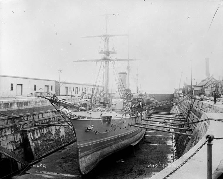 photograph of British Cadmus class sloop HMS Fantome in drydock at Halifax, Nova Scotia, Canada.